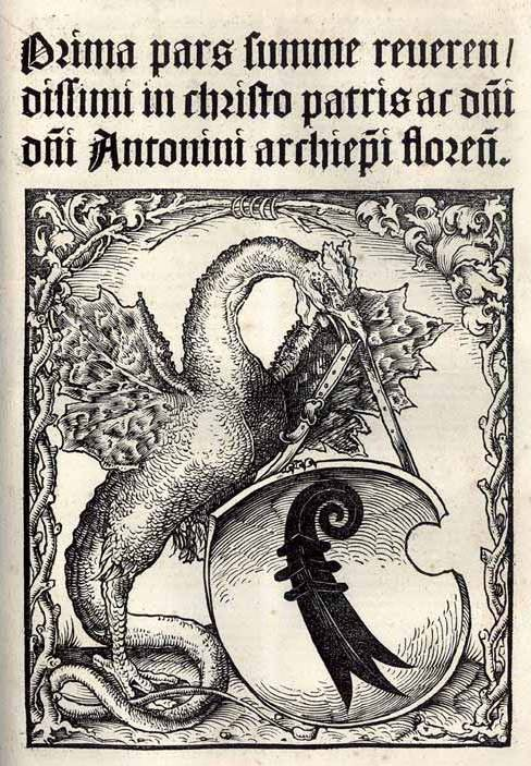 Coats of arms of Basel with basilisk as supporter. Woodcut by Master D.S. from Prima pars Summe reverend/issimi in Christo patris ac d[omi]ni D[omi]ni Antonini Archiep[iscop]i Floren[tini] & Repertorium in 1 volume (Basel, Petri Johann, Amerbach, Johann u. Froben, Johann 15011 (d.i. 1511)